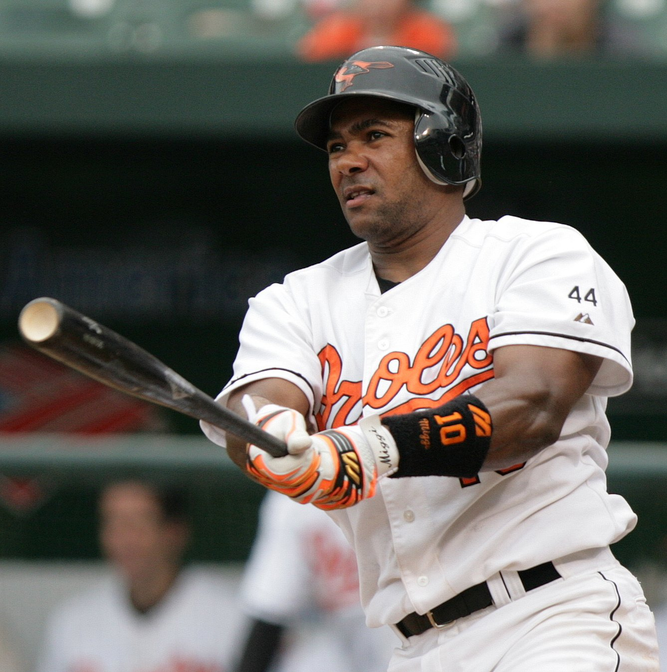 Baltimore Orioles shortstop Miguel Tejada after swinging at a pitch during a game against the Minnesota Twins on September 24, 2006, at Oriole Park at Camden Yards in Baltimore, Maryland